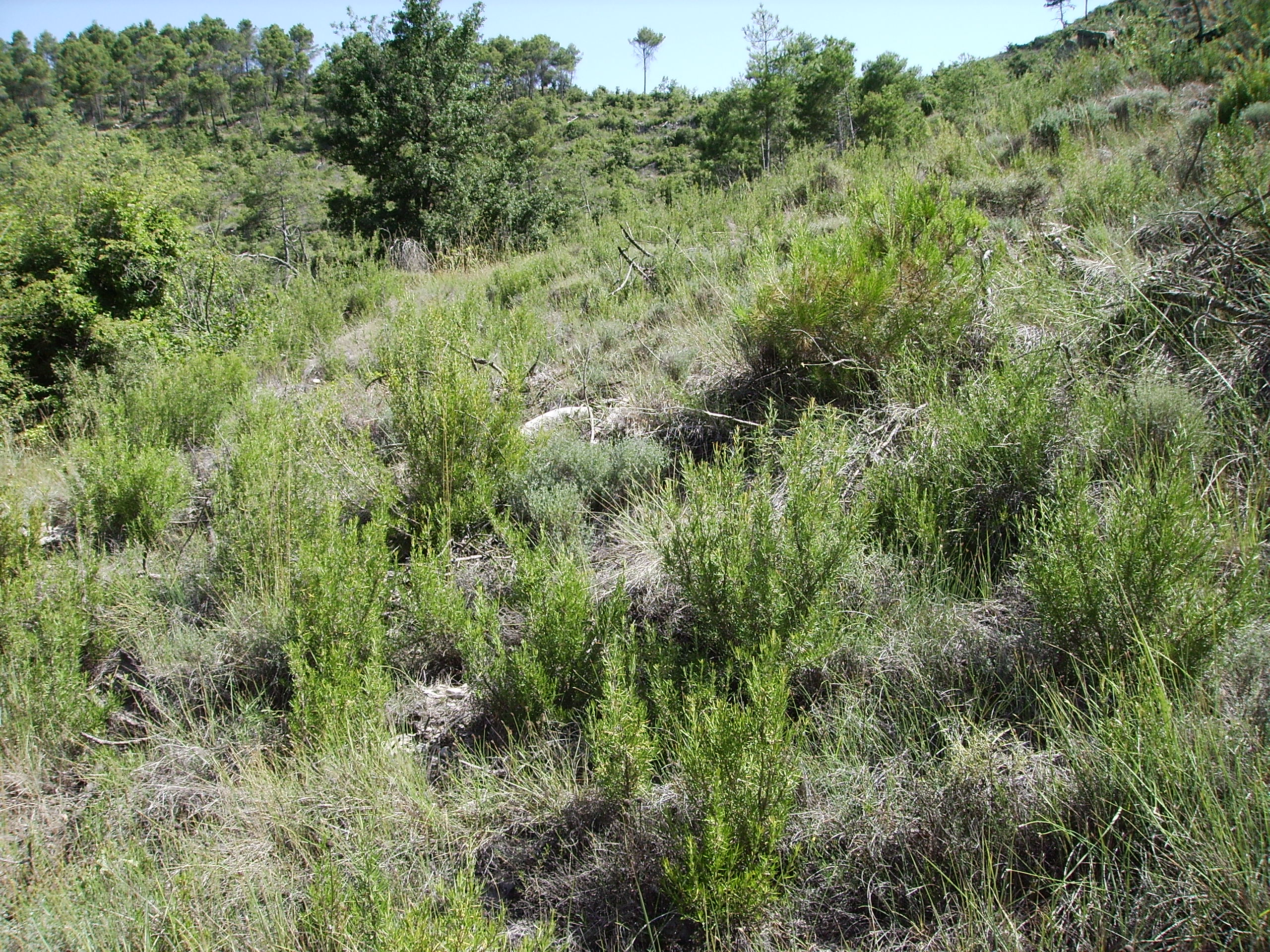 Image:Brolla_de_romaní_21_juliol_06_038.jpg My own work